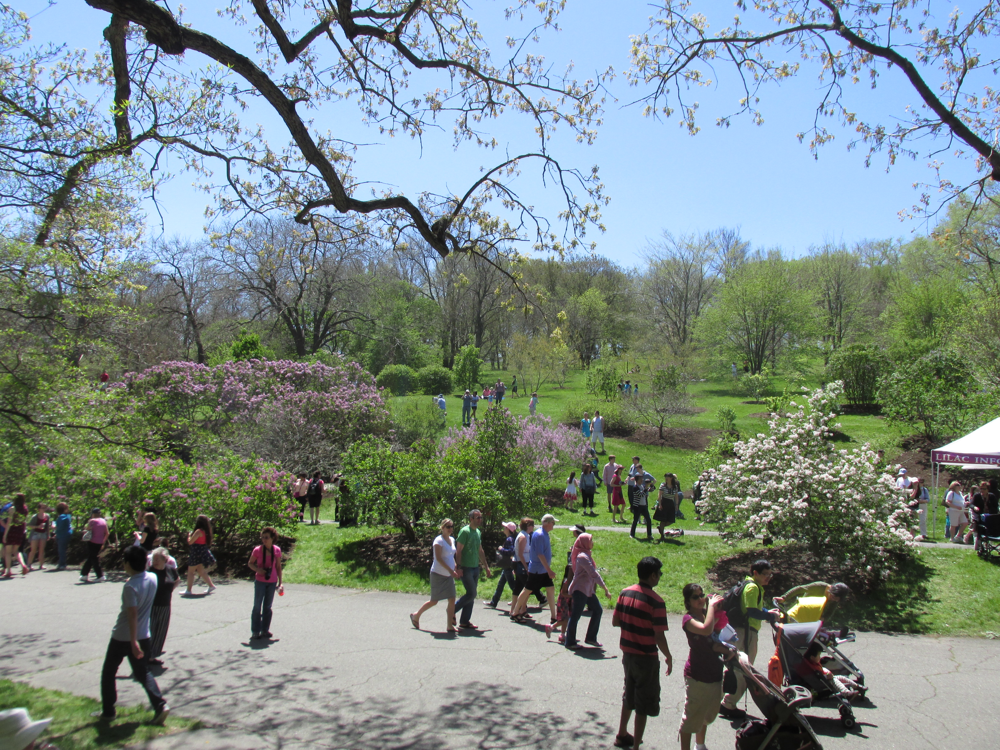 Lilac Sunday view, Arnold Arboretum, Jamaica Plain Massachusetts